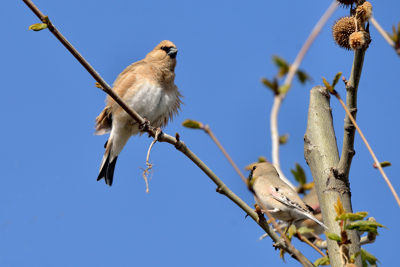 Desert Finch Bismil 2016